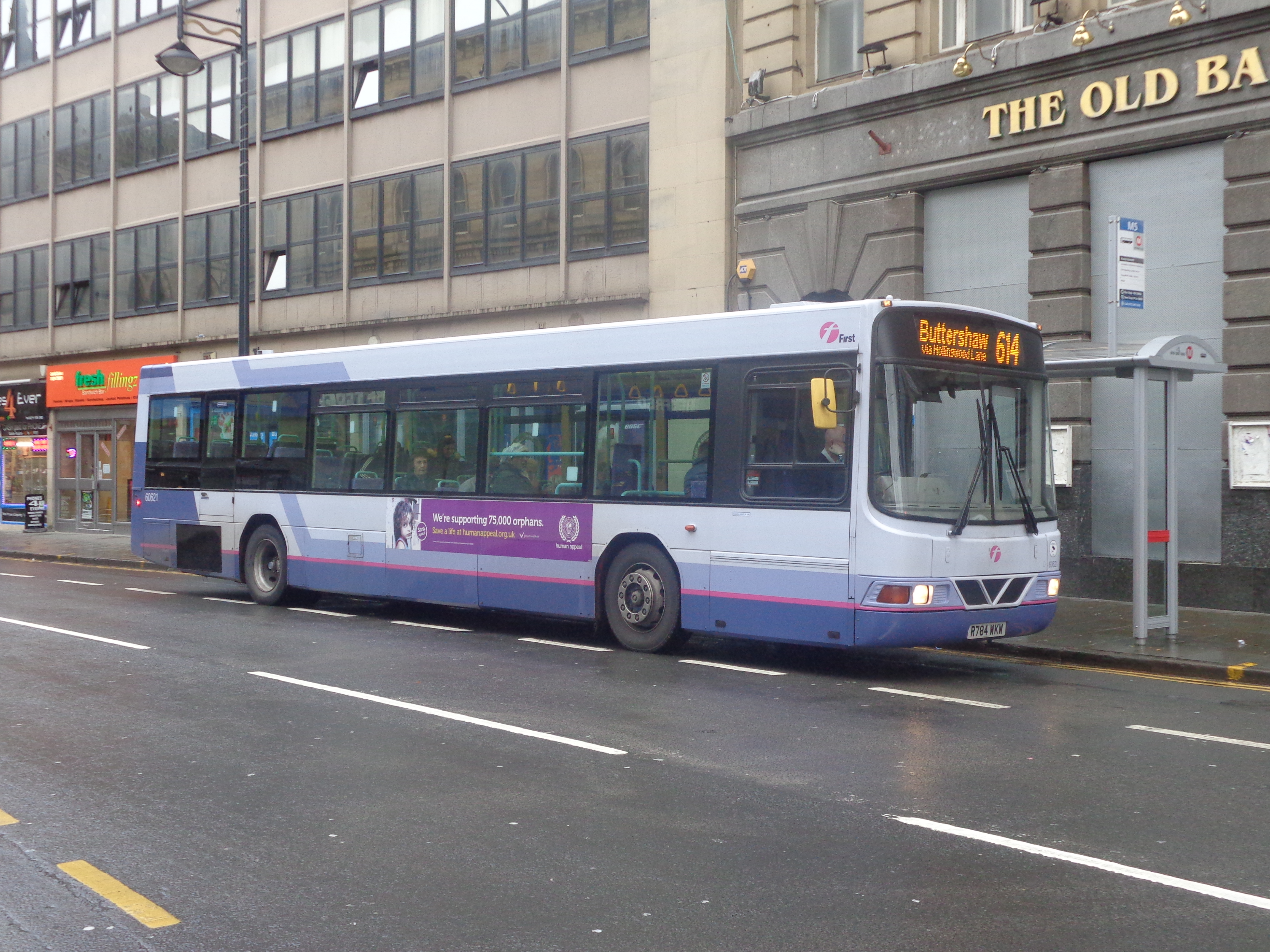 First Bradford bus to Buttershaw on Market Street, Bradford, West Yorkshire. Taken on the afternoon of Saturday the 8th of November 2014.